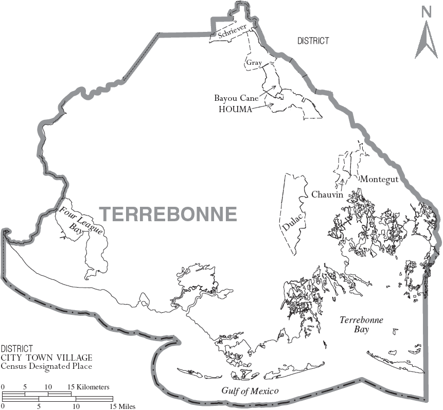 Map of Terrebonne Parish, Louisiana, United States with municipal boundaries